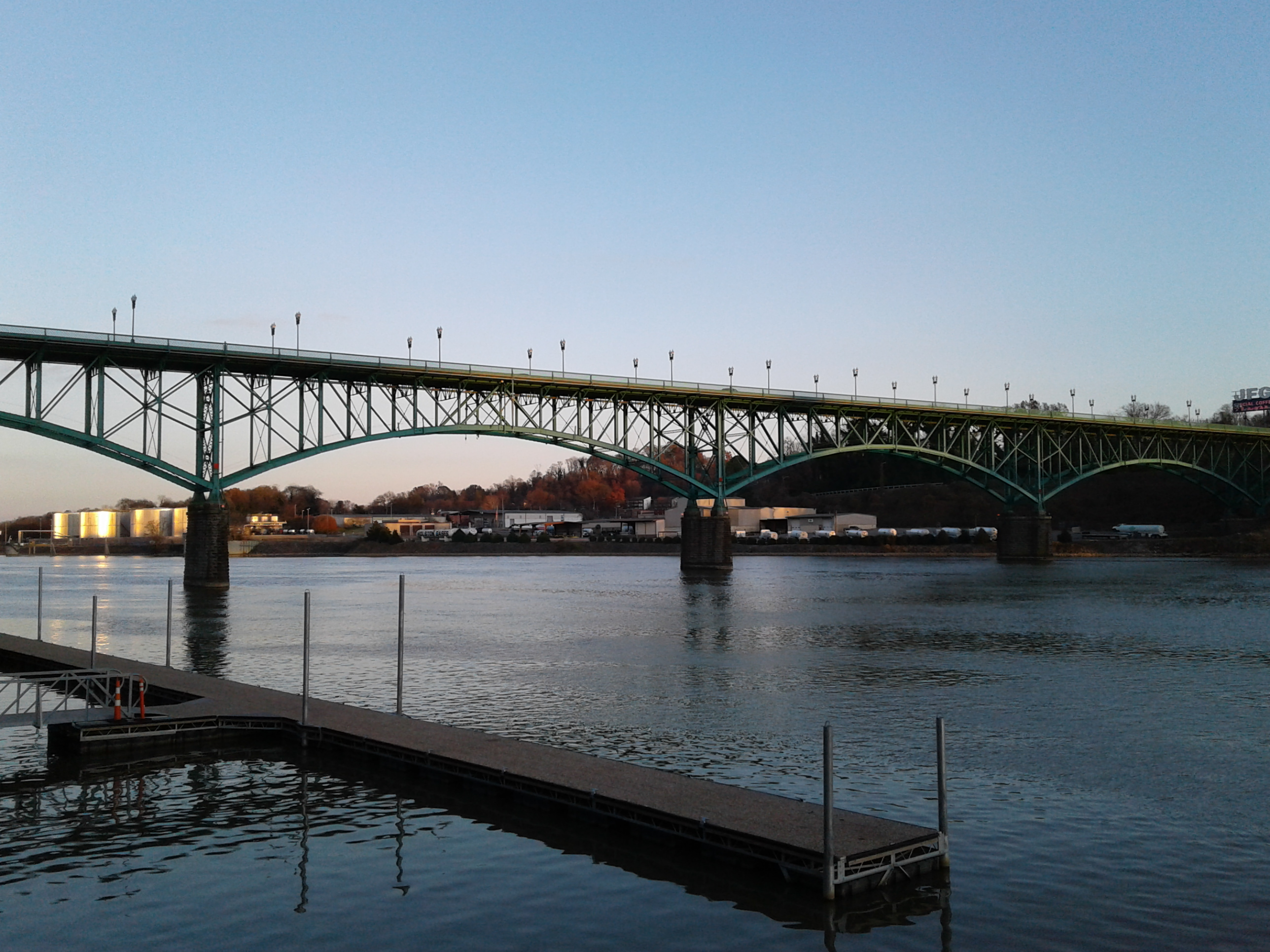 Knoxville, TN Tennessee river — at Calhoun's on the River.